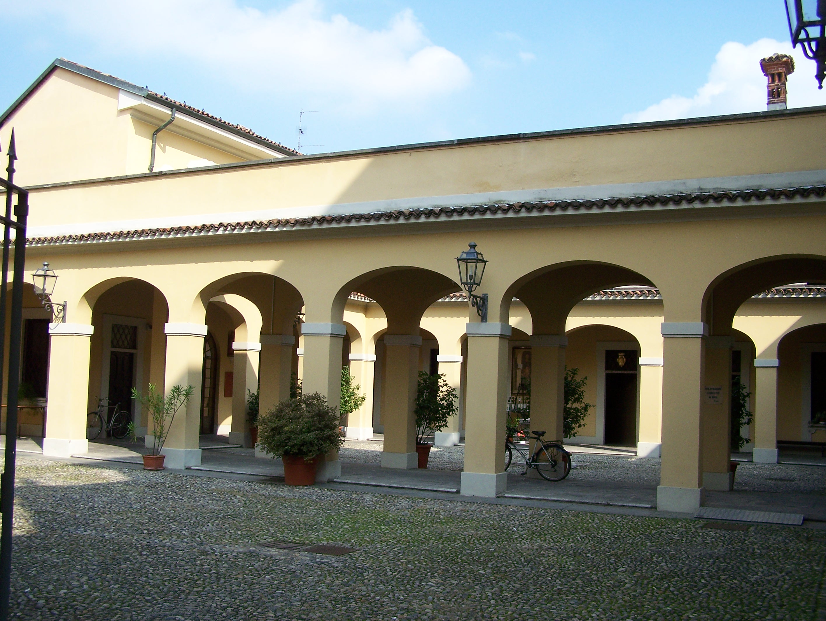 Sanctuary cloister in Corbetta (MI) - Italy